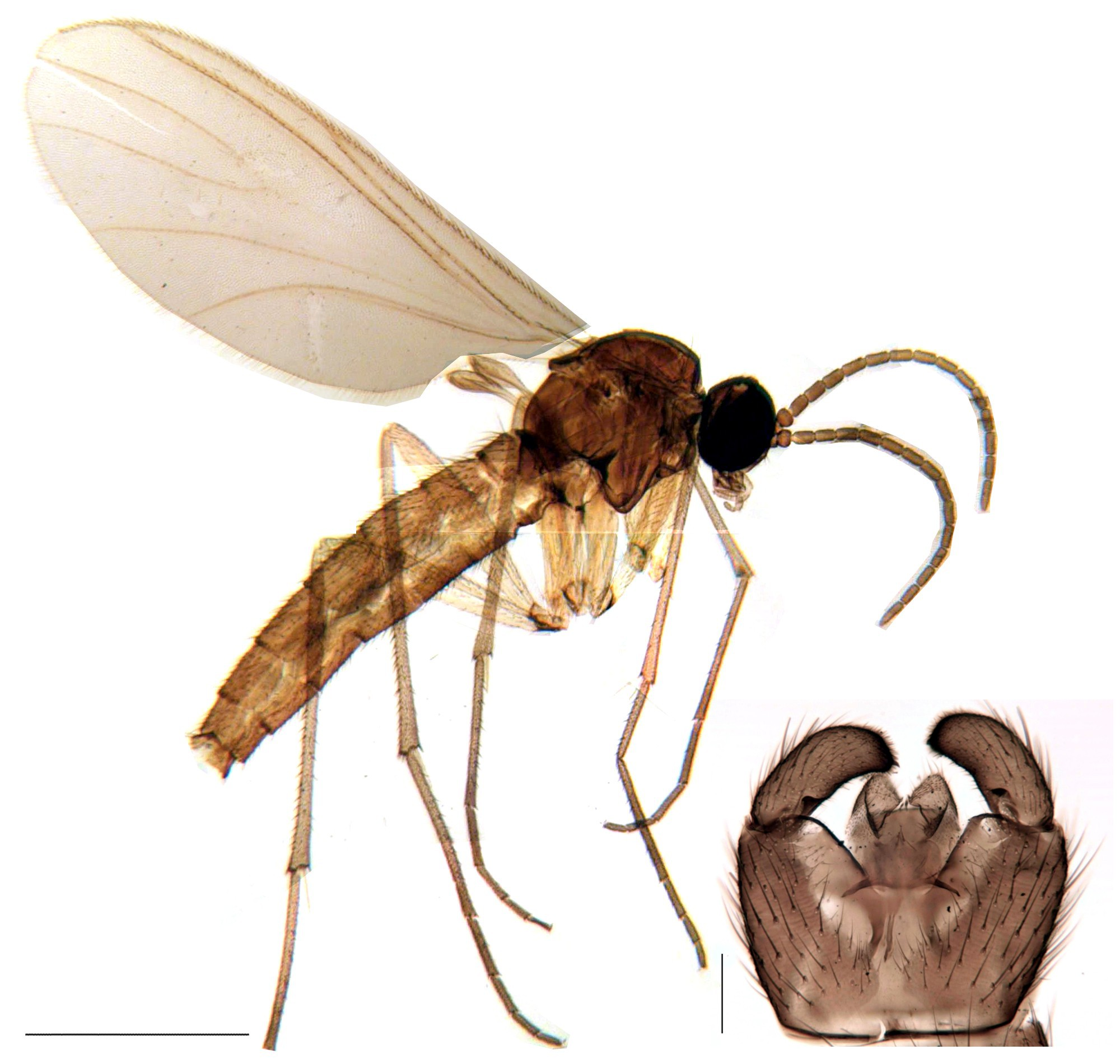 Habitus of Leptosciarella subspinulosa (Diptera: Sciaridae) (scale 1 mm) and hypopygium ventral (scale 0.1 mm)